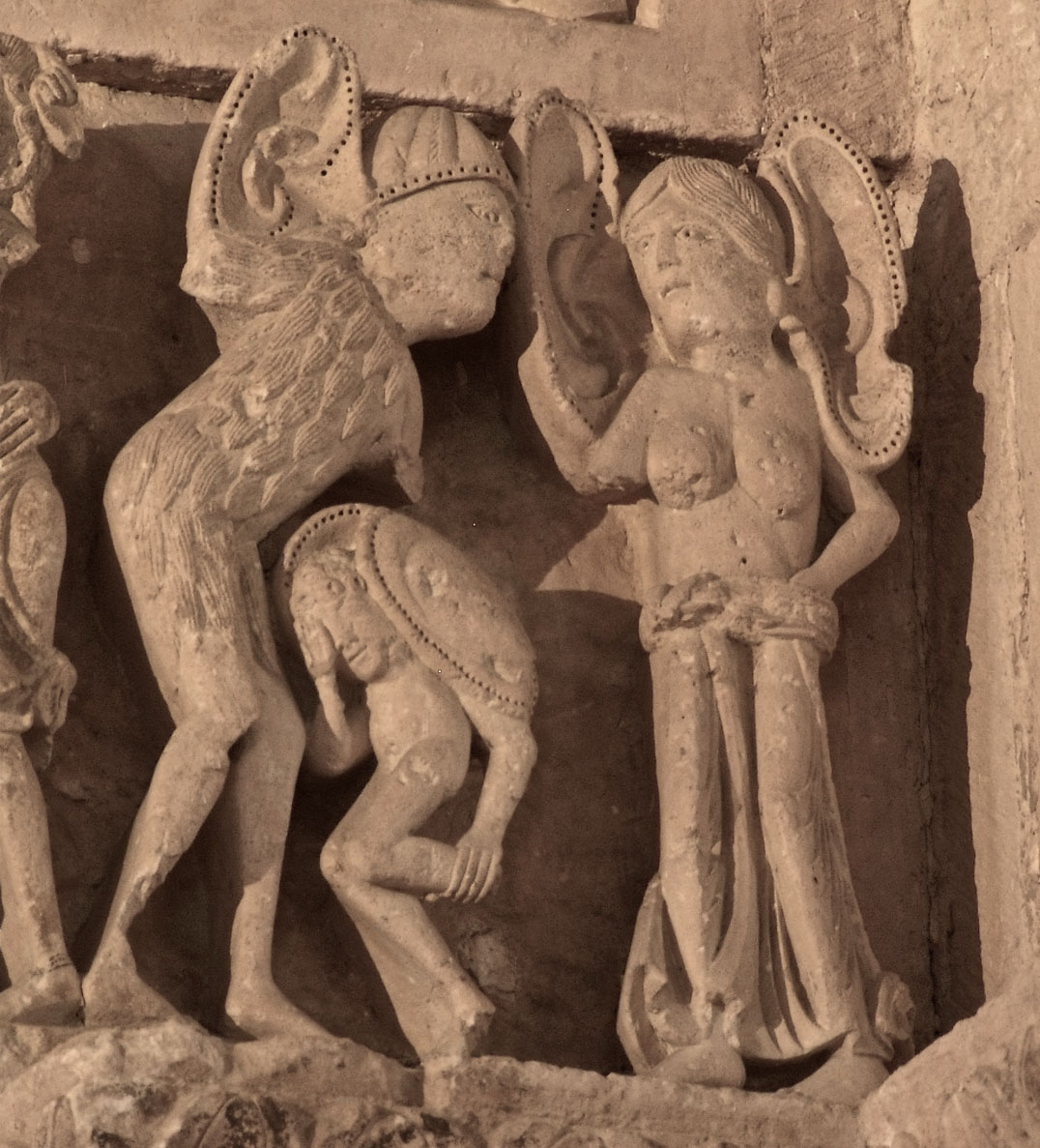 Panotti